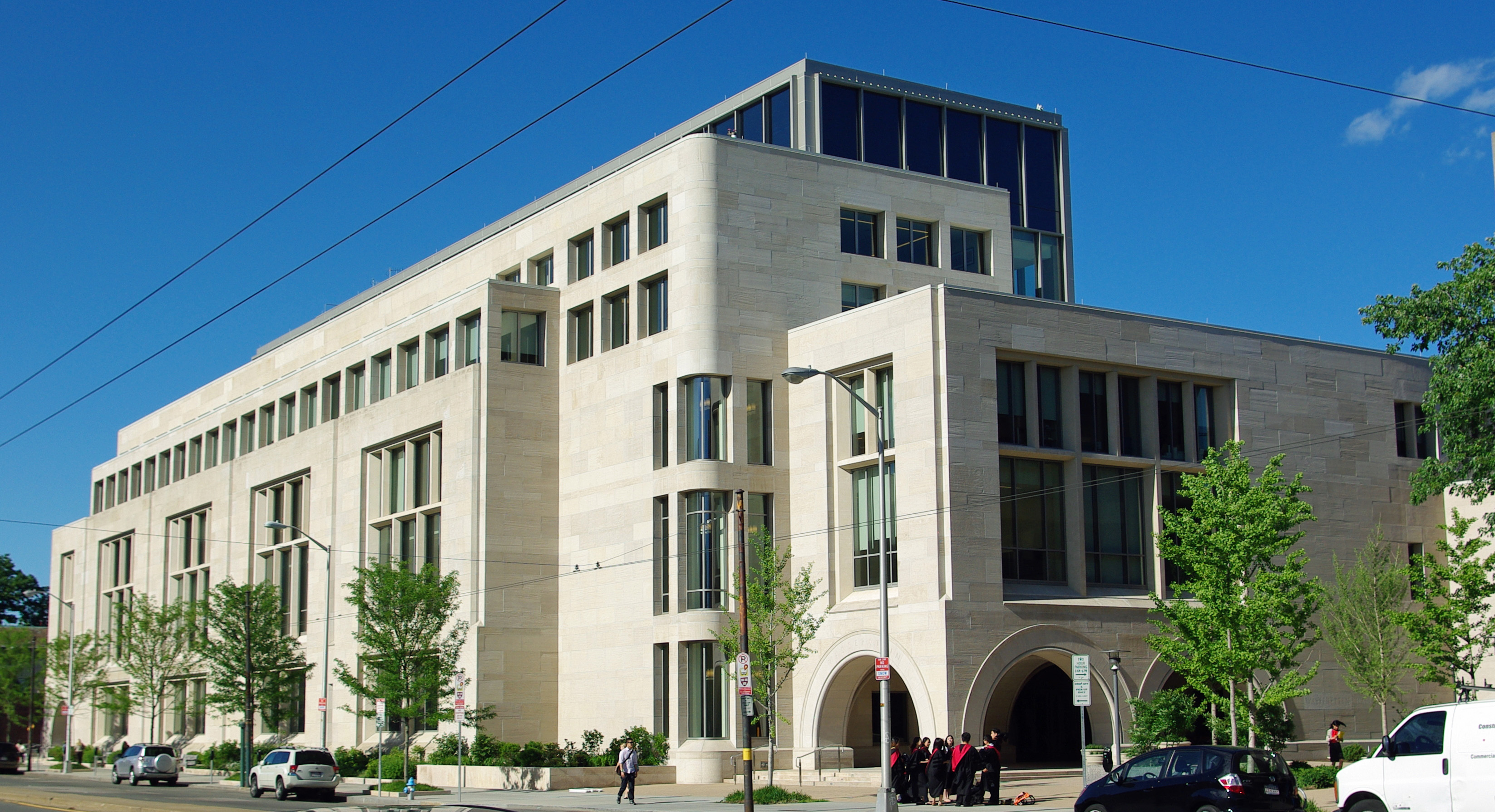 Wasserstein Hall